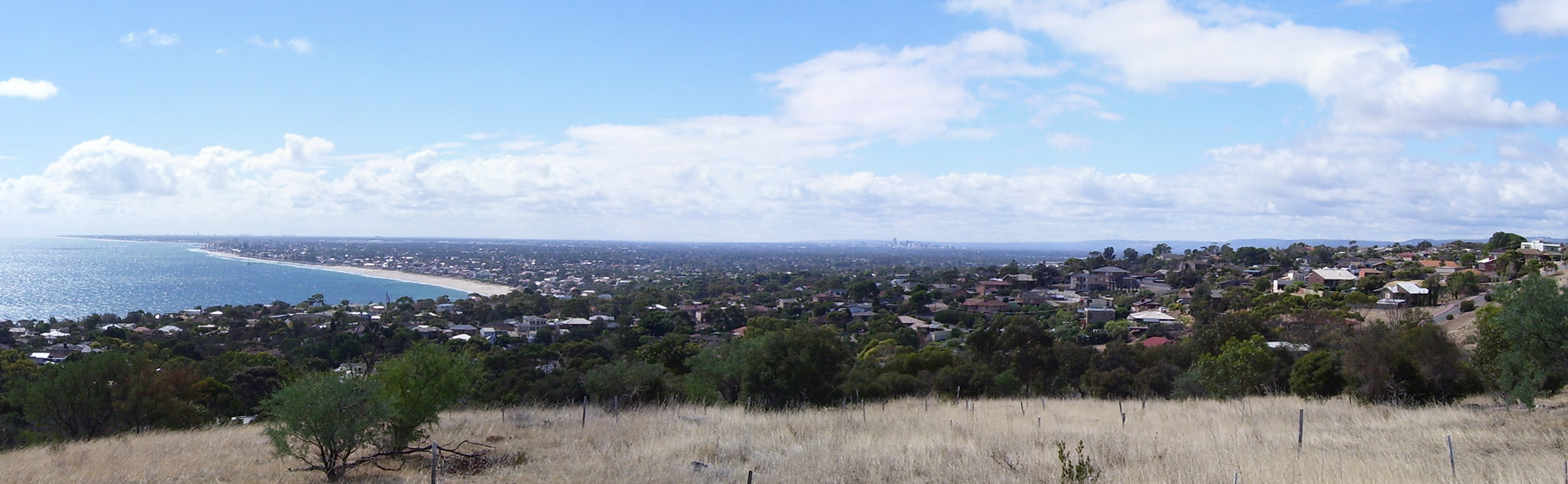 Marino Conservation Park panorama.